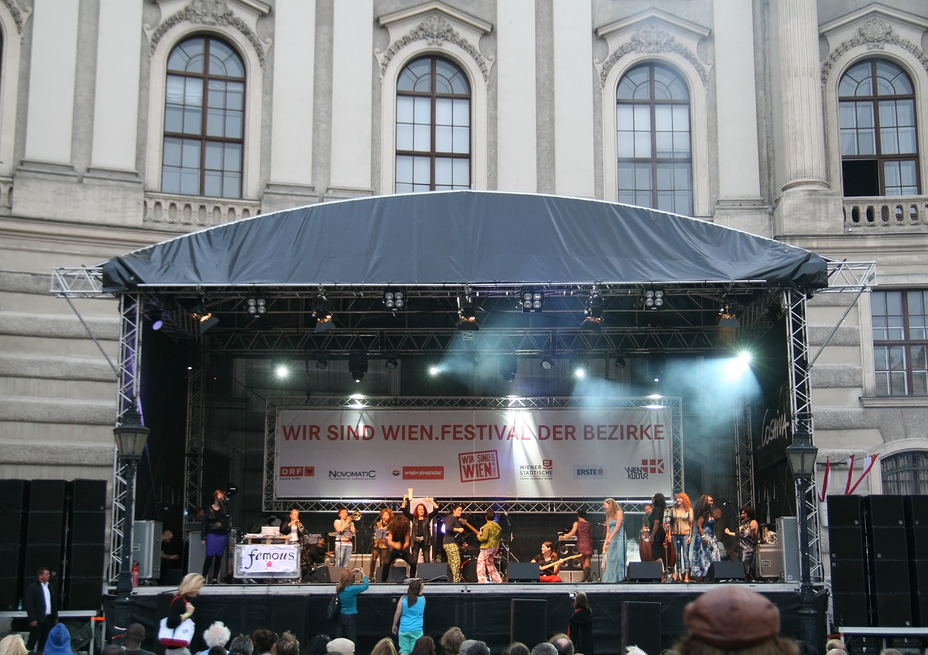 the international femous orchestra at the festival Wir sind Wien – Festival der Bezirke (Michaelerplatz in Vienna